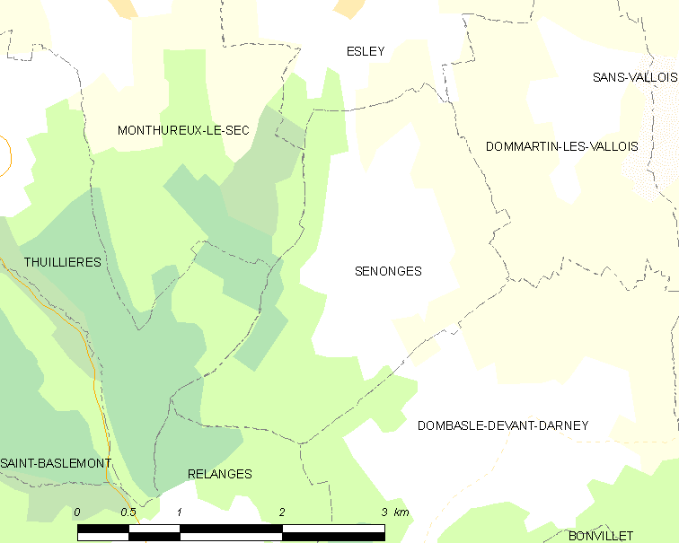 Map of French municipality Senonges